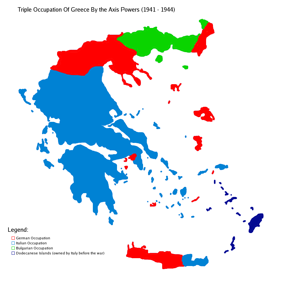 Map of Occupied Greece showing the German and Italian occupation zones on Crete.